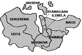 Mwanza (Region of Tanzania) with subdivisions (districts)